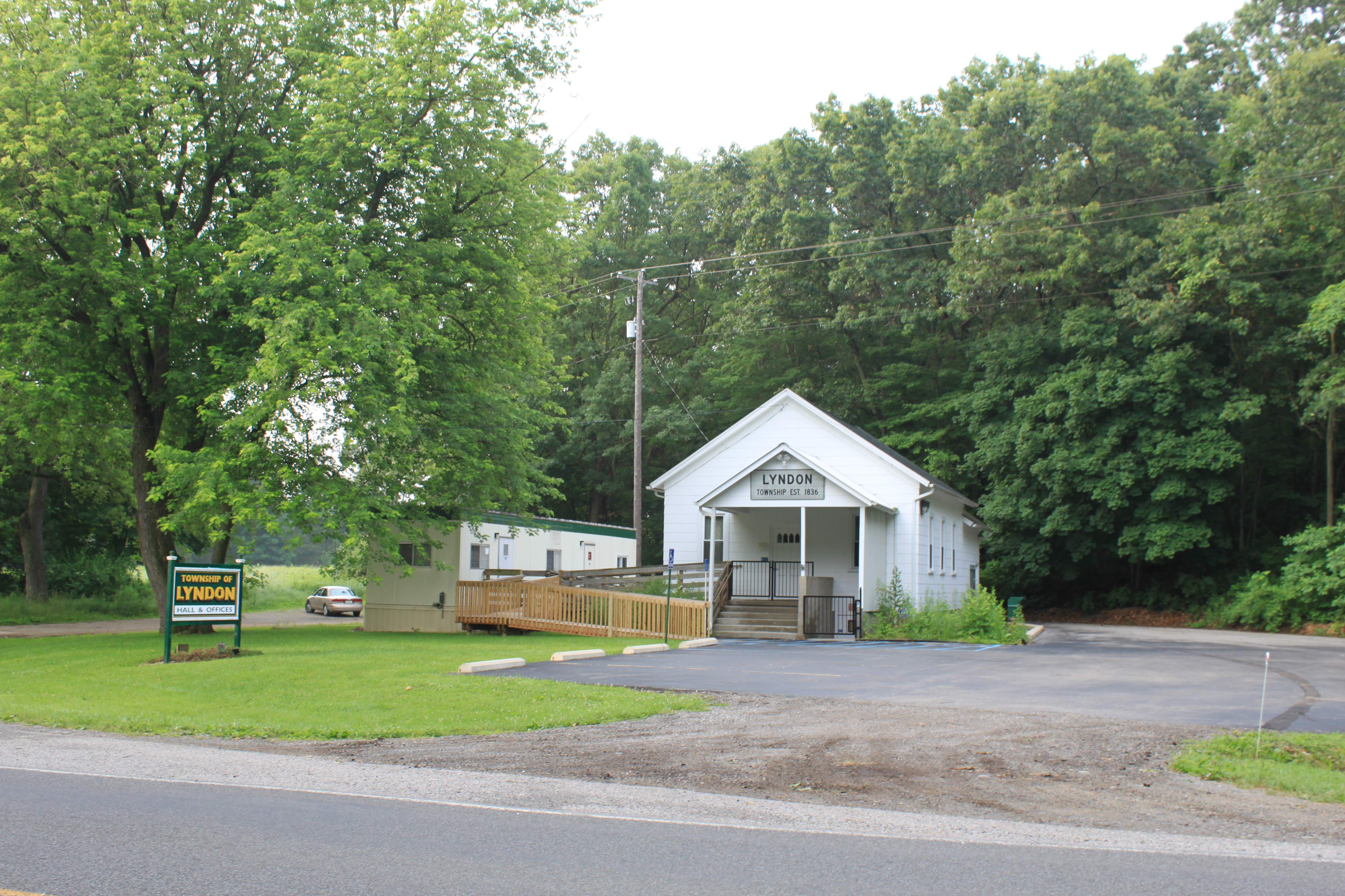 Lyndon Township Hall, 17751 N. Territorial Road, Michigan